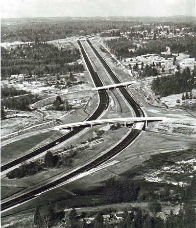 Looking north at the Swamp Creek Interchange in Lynnwood, Washington